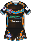 Northern Pride RLFC primary jersey 2014;Other information: No